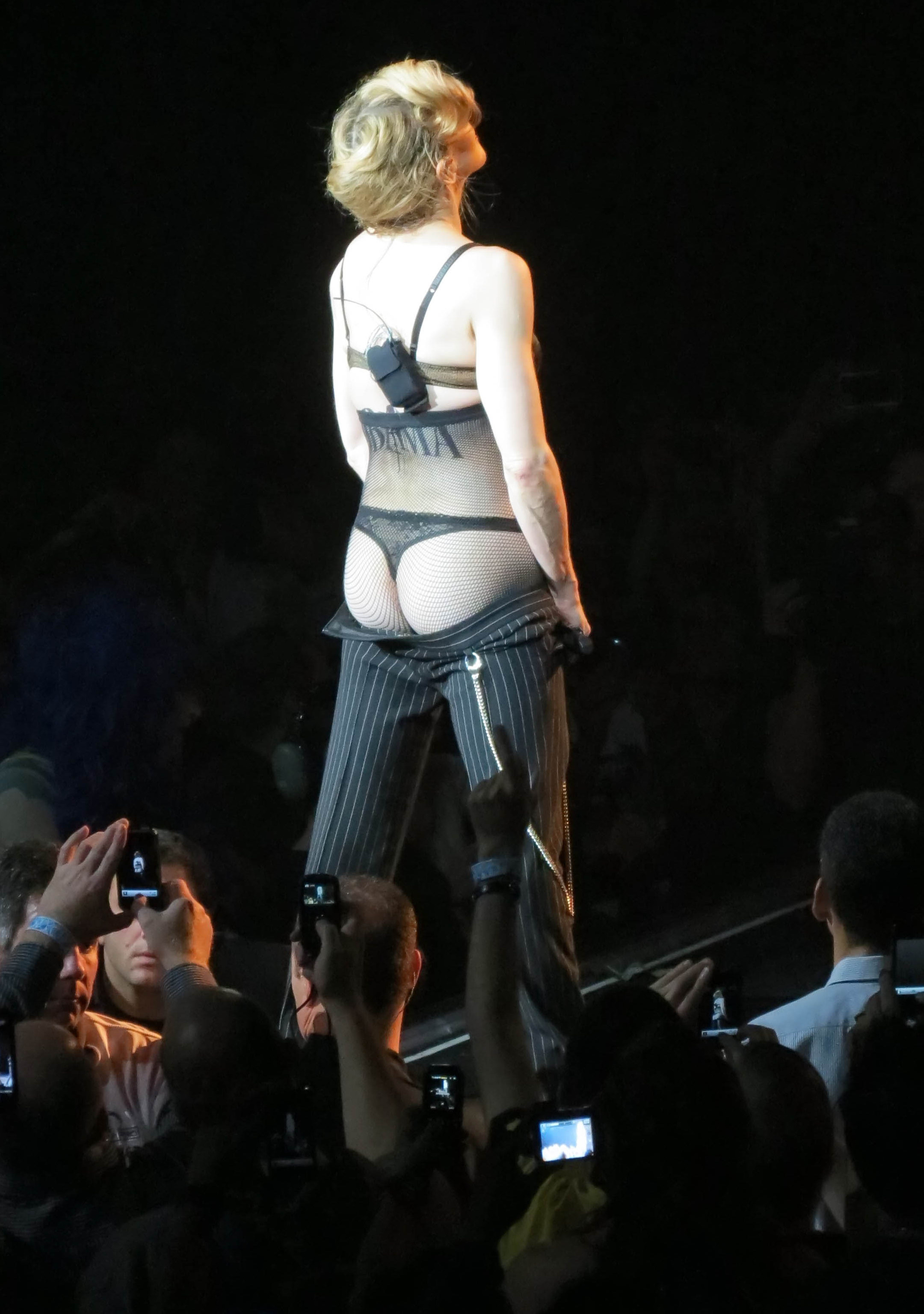 Madonna MDNA Tour 2012 at Key Arena in Seattle.